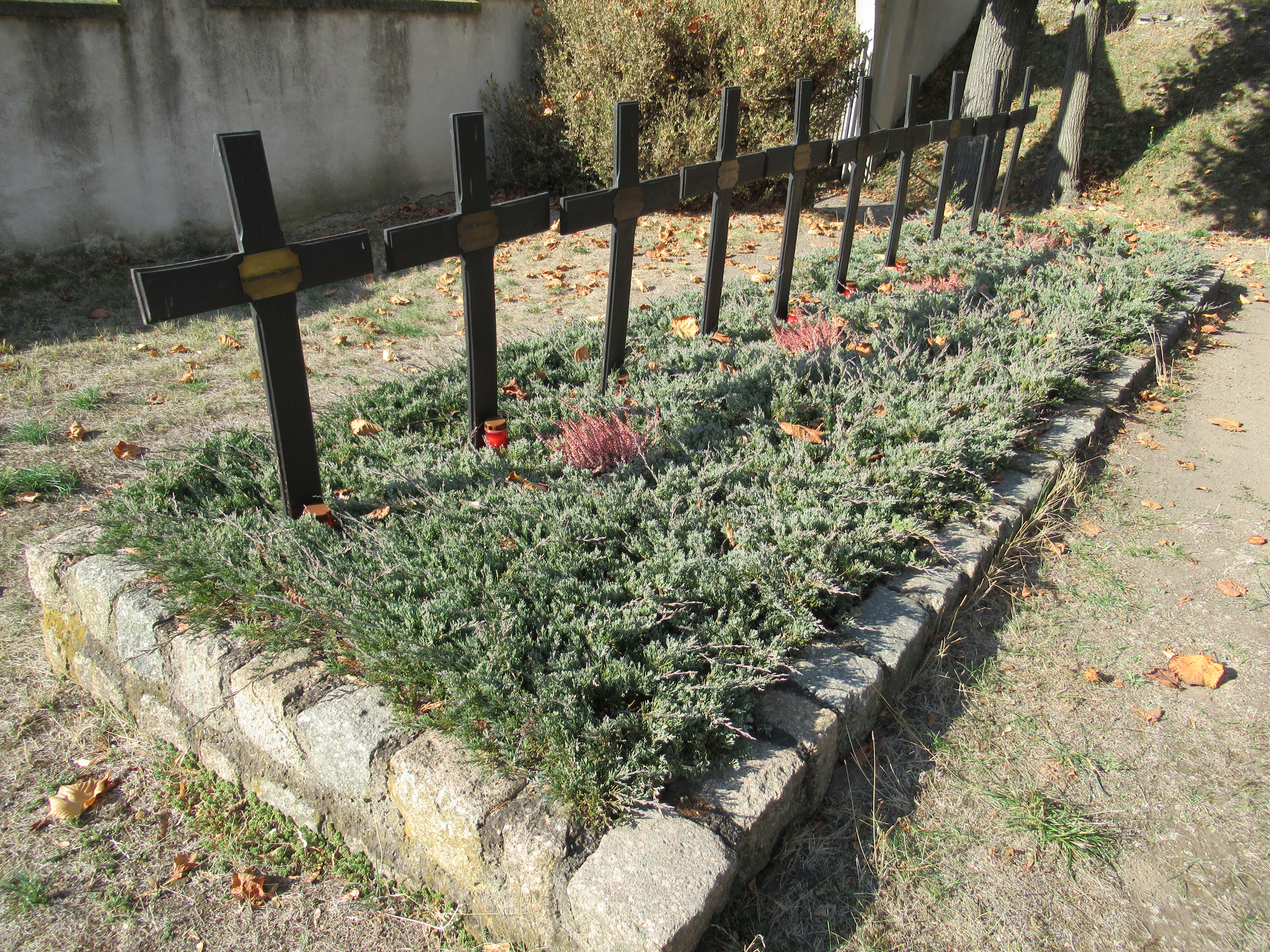 Grave of Soldiers 1945 in Frankleben (Braunsbedra)